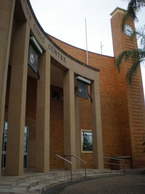 Photo taken by bauple58 using my own Olympus FE-190 camera.